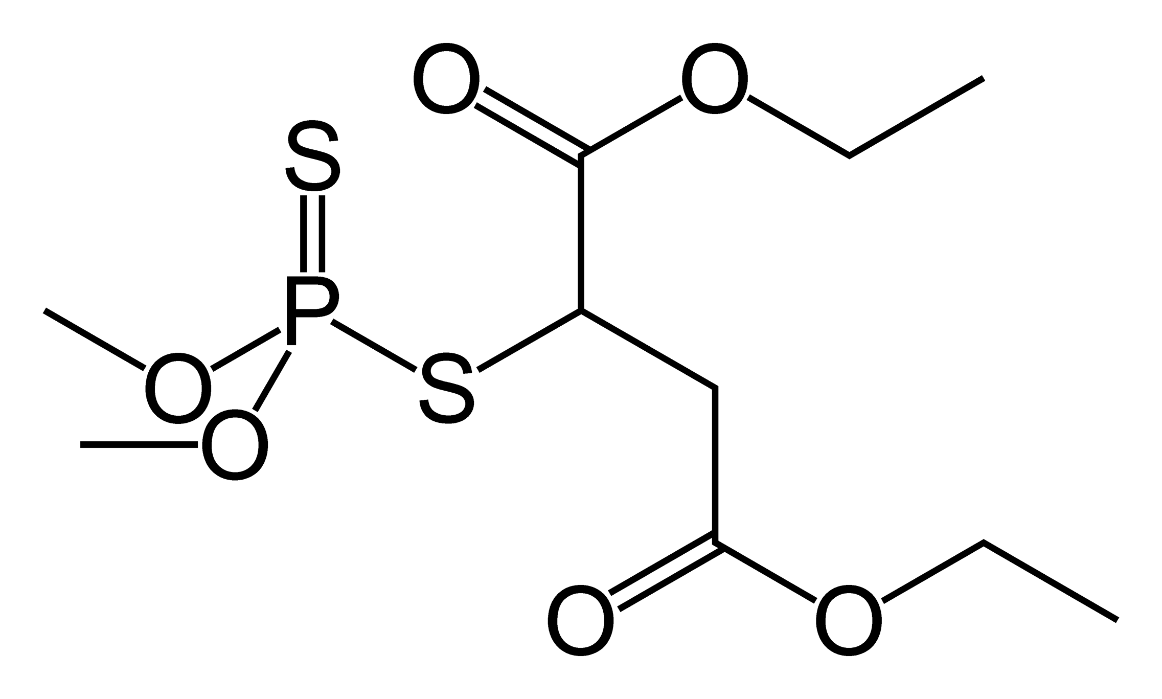 Malathion